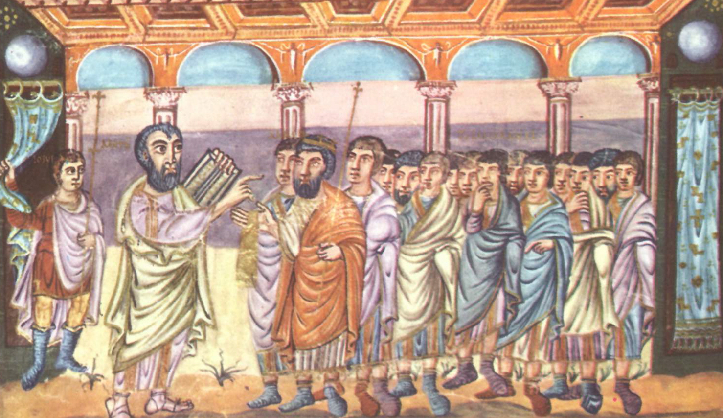 Moses repeated the commandments to the people, detail by a Carolingian book illuminator circa 840